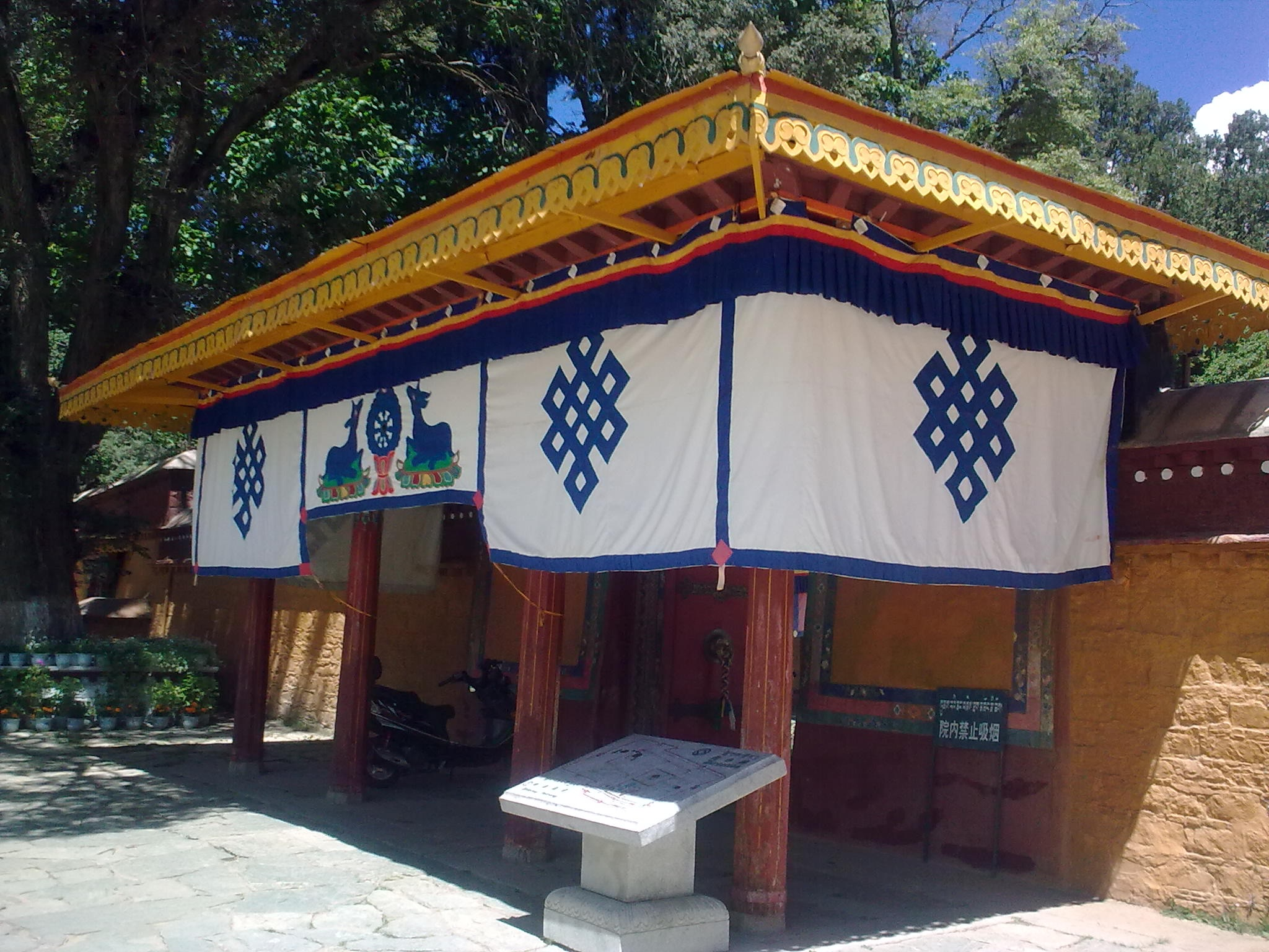 Entrance to the Palace of the 7th Dalai Lama in Norbulingkha, World Heritage Site in Lhasa, Tibet.